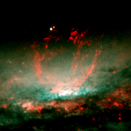 This NASA/ESA Hubble Space Telescope image shows the lumpy bubble of hot gas located at the center of the NGC 3079 galaxy's disk. Astronomers suspect that the bubble is being blown by "winds" (high-speed streams of particles) released during a burst of star formation. Gaseous filaments at the top of the bubble are whirling around in a vortex and are being expelled into space. Eventually, this gas will rain down upon the galaxy's disk where it may collide with gas clouds, compress them, and form a new generation of stars. The two white dots just above the bubble are probably stars in the galaxy.